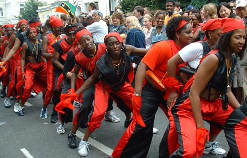 Notting Hill Carnival 2002 (London, UK) Photo of the Notting Hill Carnival, the original image was taken on 26th August 2002 by User:ChrisCroome, this image is © Chris Croome 2002 and it has been made available under the GNU Free Documentation License.